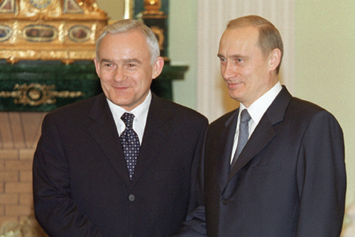 THE KREMLIN, MOSCOW. President Putin with Polish Prime Minister Leszek Miller.